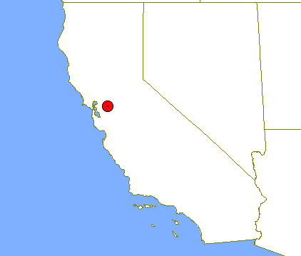 Location map of Brentwood, California